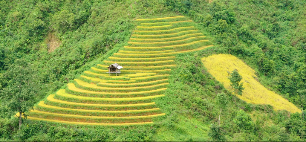 Rice Terraces in La Pan Tan, Mu Cang Chai District, Yen Bai Province, Vietnam